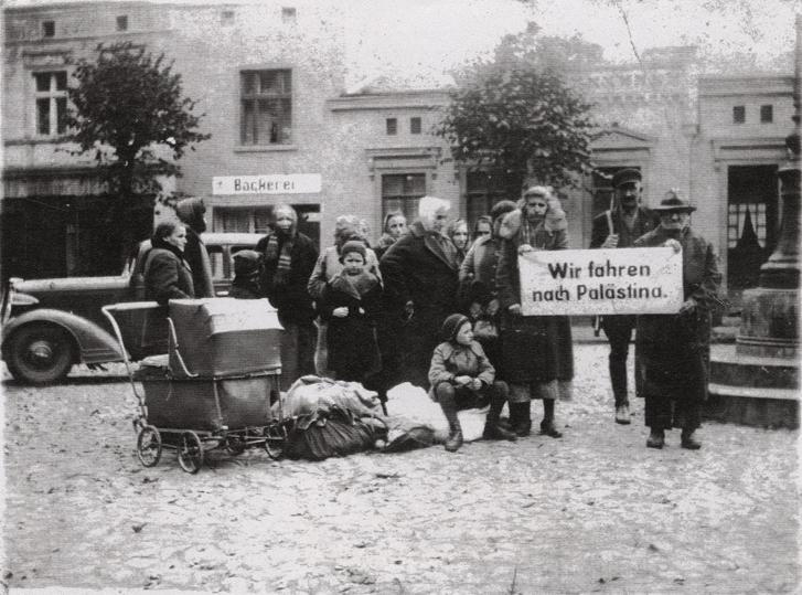 Jews from Sępólno Krajeńskie gathered by German occupants (members of Volksdeutscher Selbstschutz) at city’s market place (autumn 1939). Inscription in German language, placed on banner, means: “we are going to Palestine”. In fact all Jews from Sępólno were murdered in Radzim interment camp.